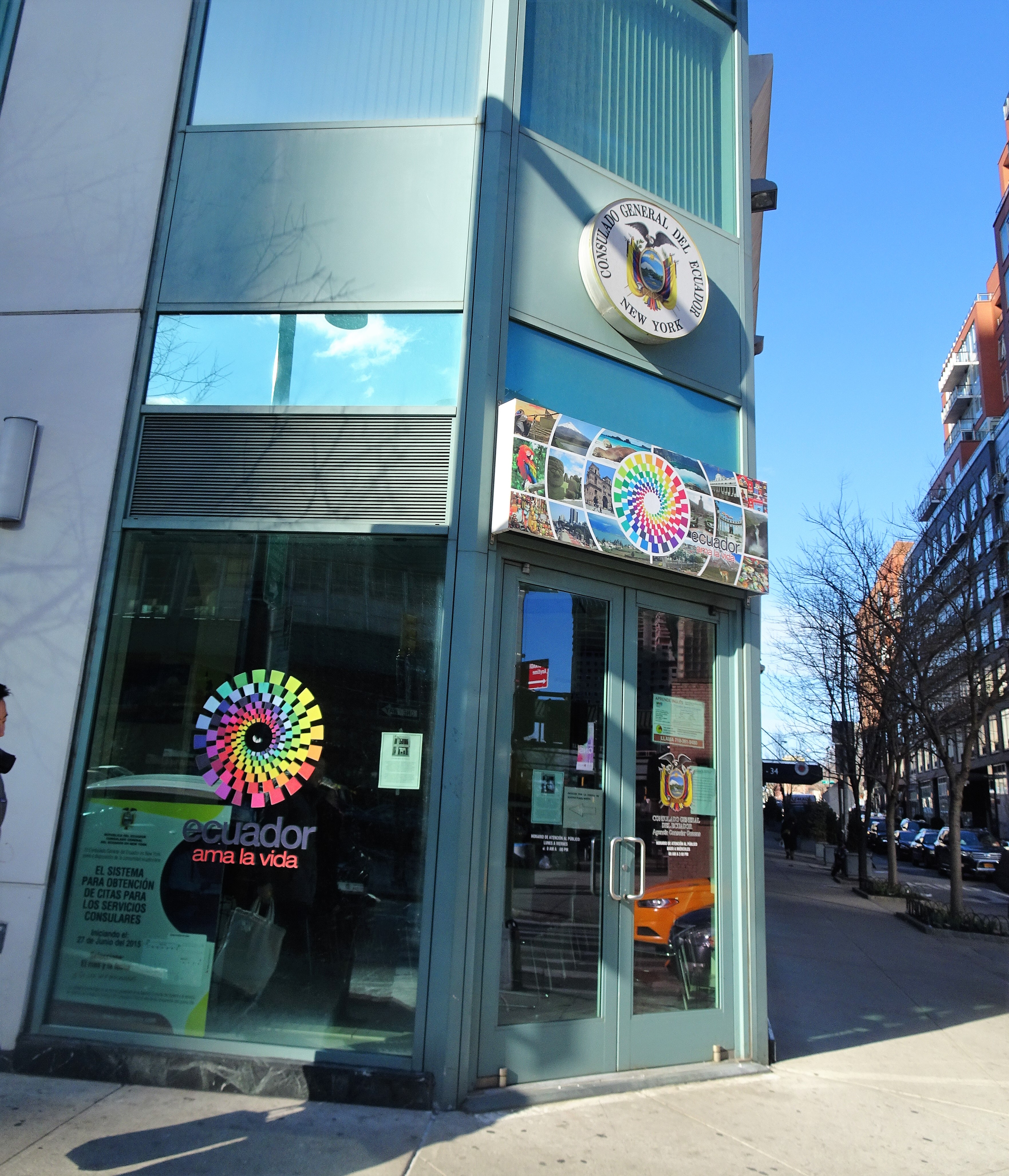 Looking north at consulate on a sunny afternoon.